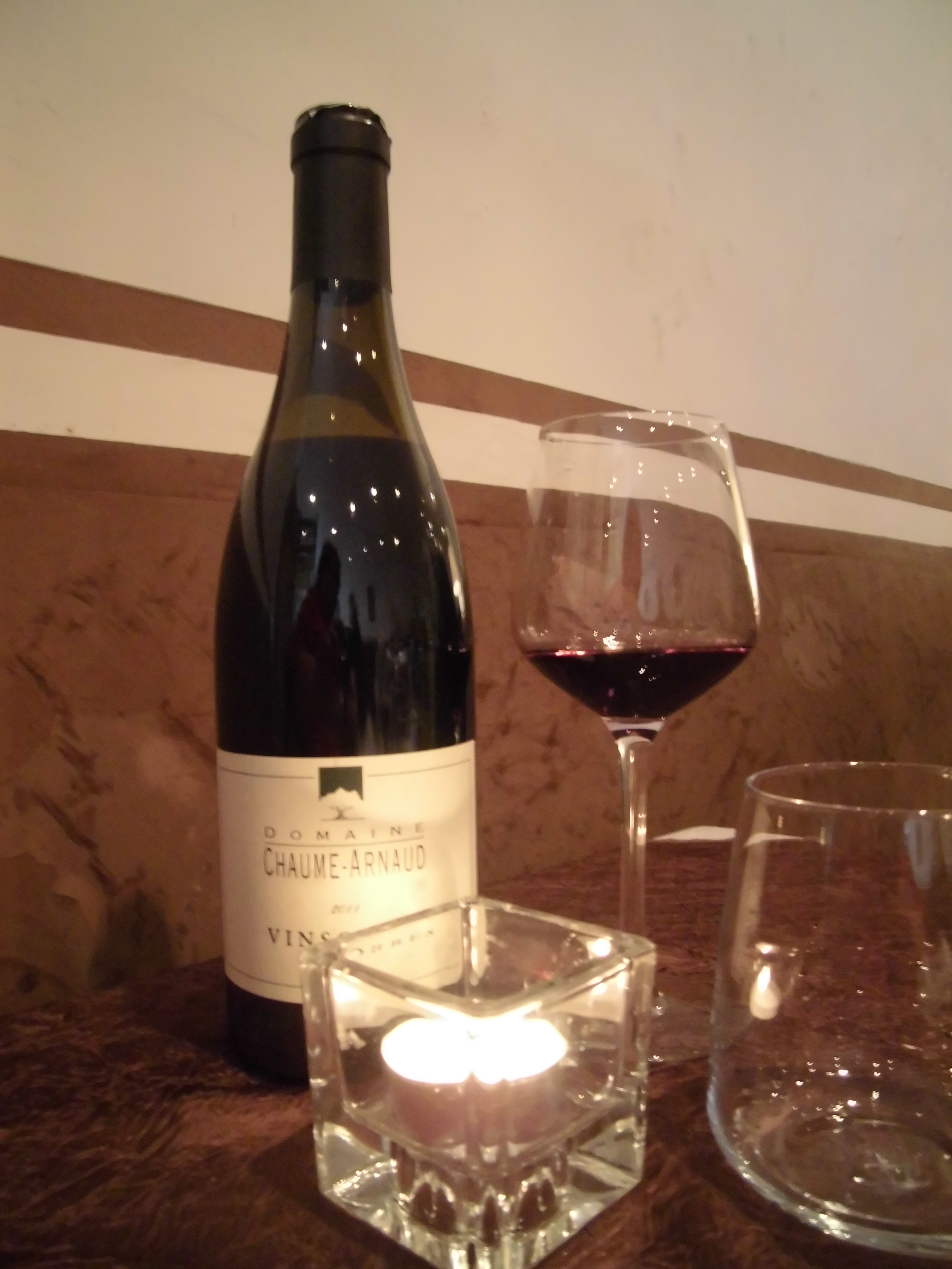 bottle of Vinsobre AOC